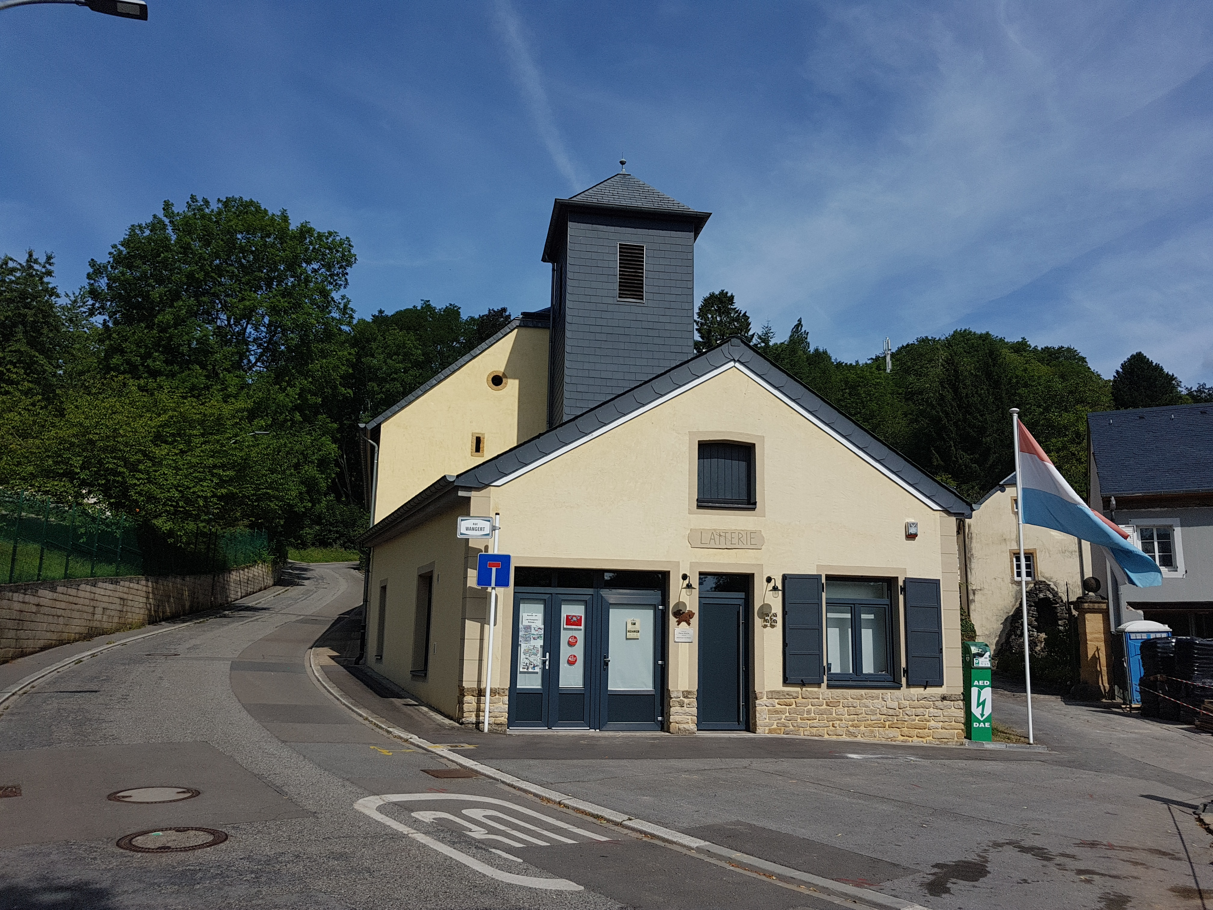 The fire department museum Senningen (lux .: Pompjéesmusée Senneng, also: Ale Pompjeesschapp Sennéng) in the locality Senningen (lux .: Senneng), municipality Niederanven (lux .: Nidderaanwen) in the Grand Duchy of Luxembourg serves the information of the public and the training (teaching Museum).